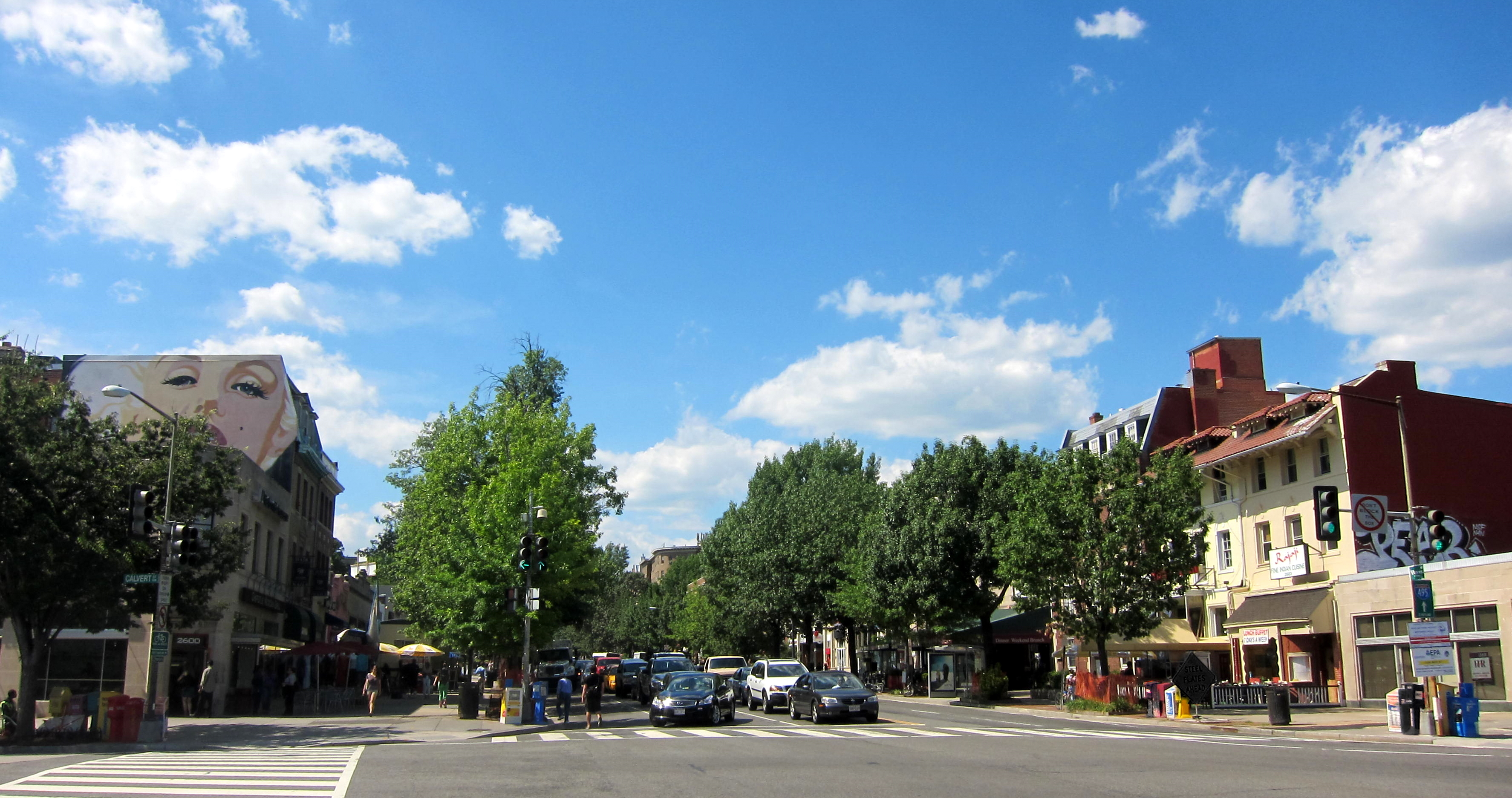 The intersection of Calvert Street and Connecticut Avenue, N.W., in the Woodley Park neighborhood of Washington, D.C.